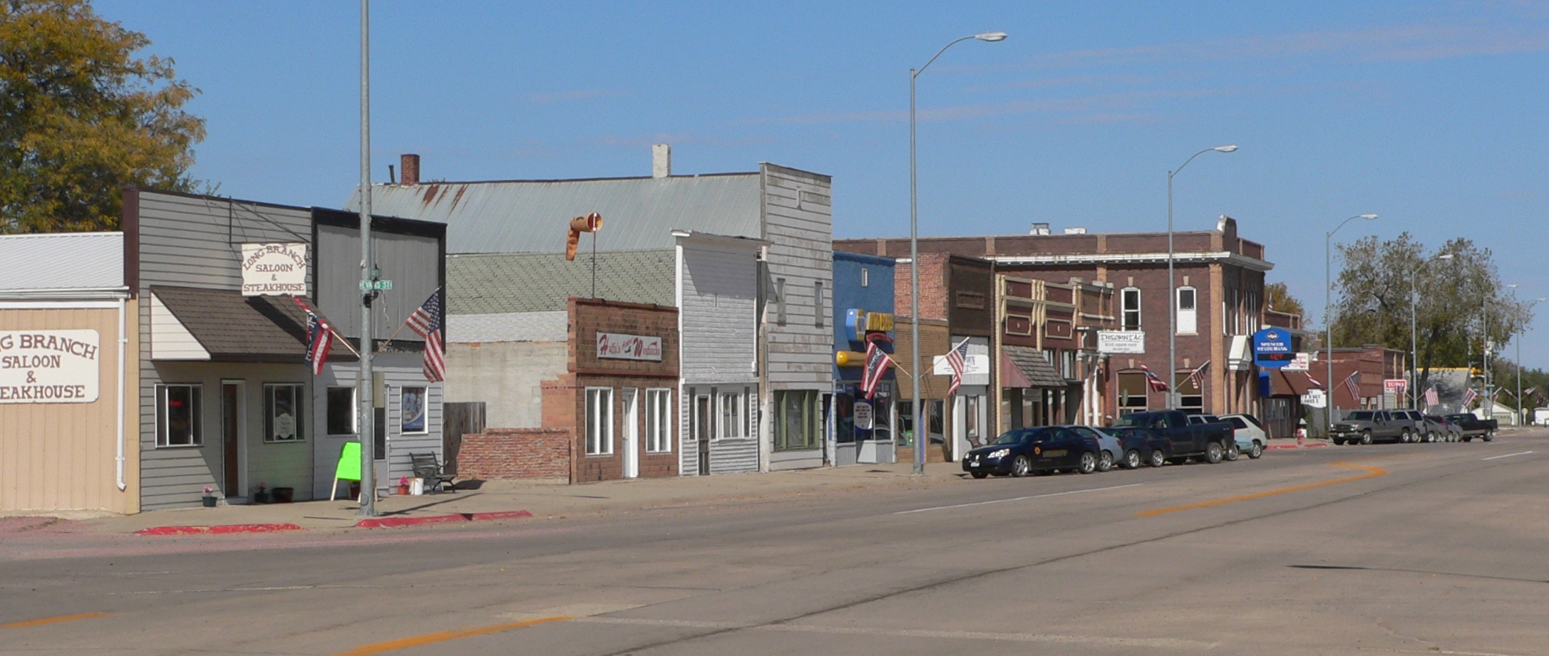 Downtown Spencer, Nebraska: west side of Thayer Street (U.S. Highway 281/Nebraska Highway 12), looking northwest from about Evans Street.